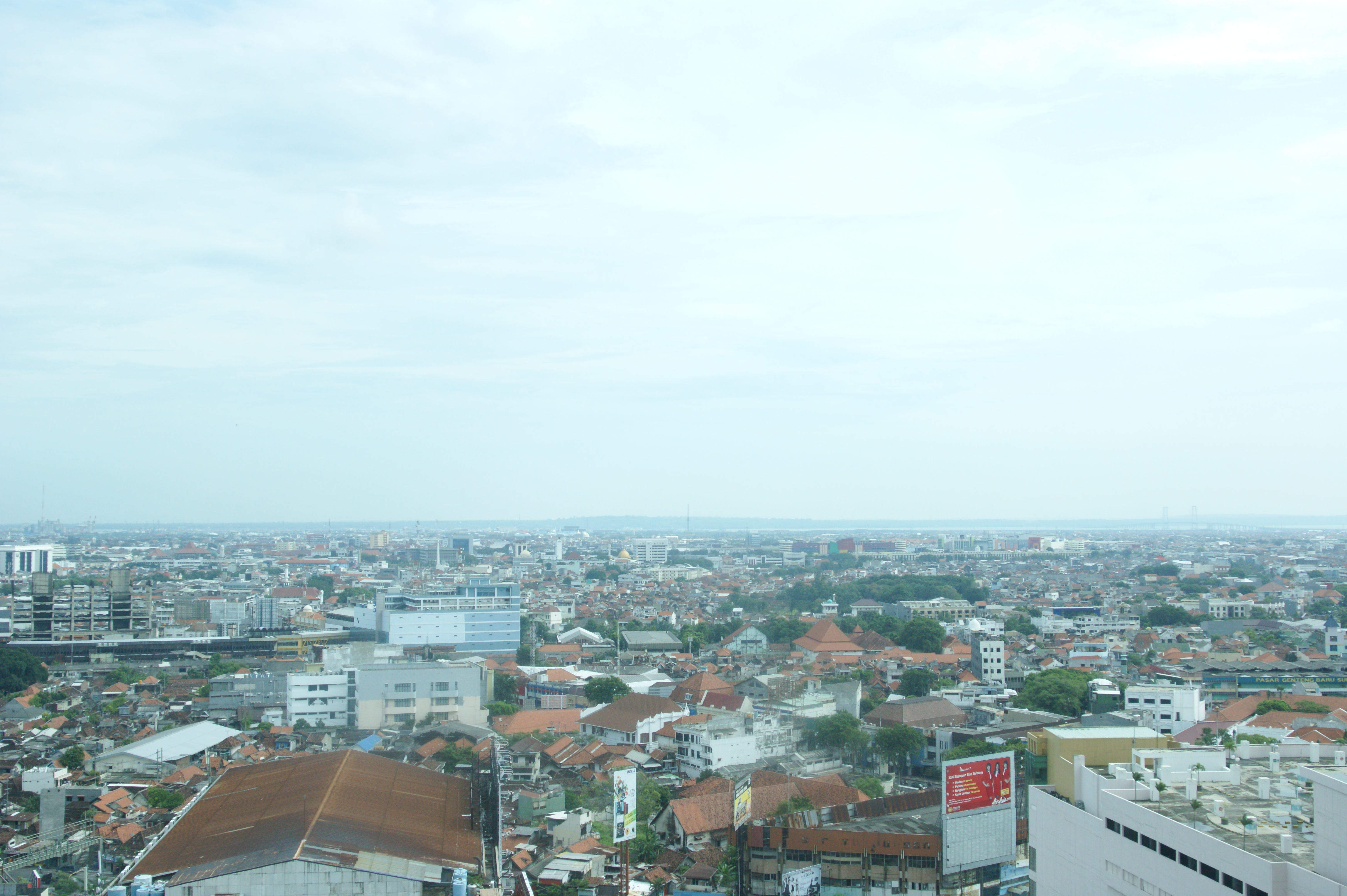 Surabaya Cty at the morning photographed from a hotel